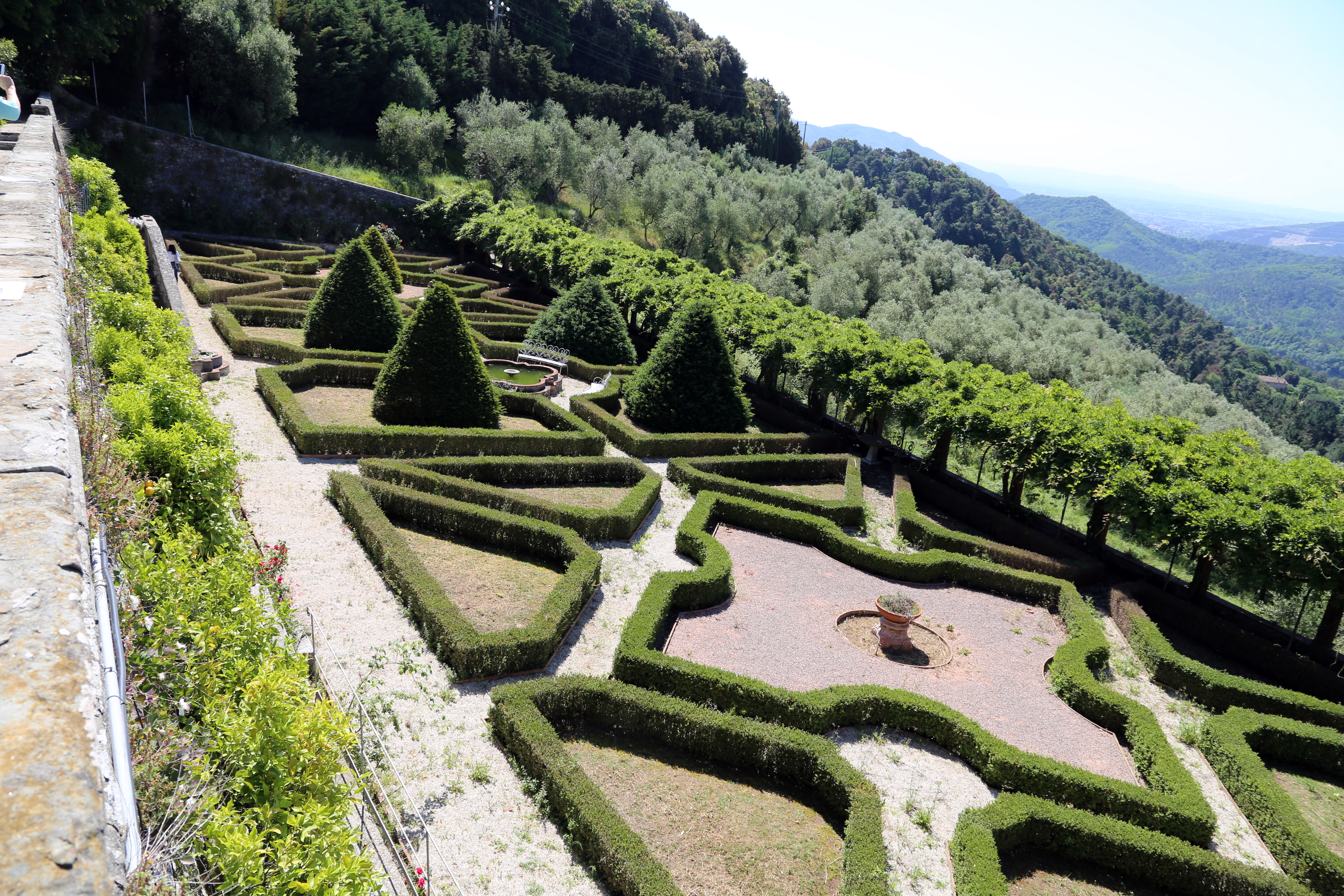 Villa Paolina (Compignano)